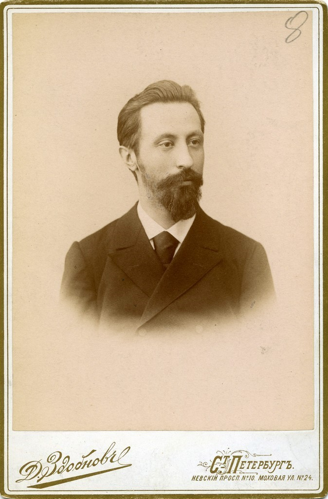 Grevs I.M.